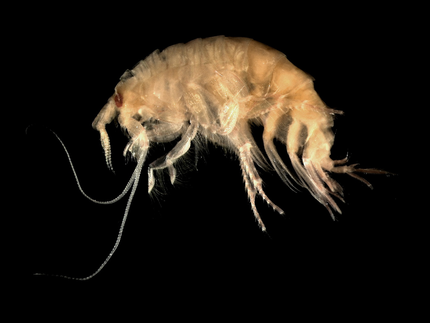 Burying amphipod from subtidal sandy substrates.Camera mounted on a Zeiss Stemi C-2000 binocular microscopeLength: ~6 mm.Belgian Continental shelf.